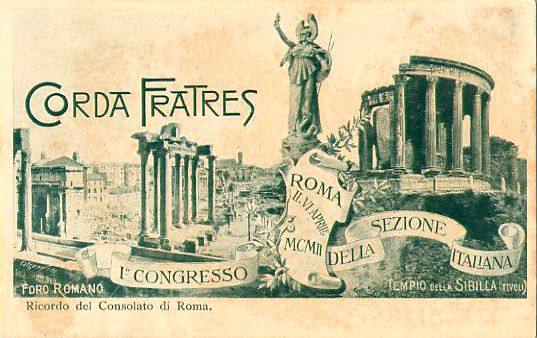 Postcard record of the Consolato di Roma of the Corda Fratres, for the first congres of italian's section of the Corda Fratres (Brothers of Hearth), International student's federation, Roma 1902.